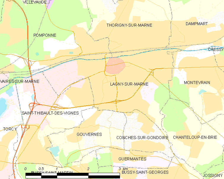 Map of French municipality Lagny-sur-Marne